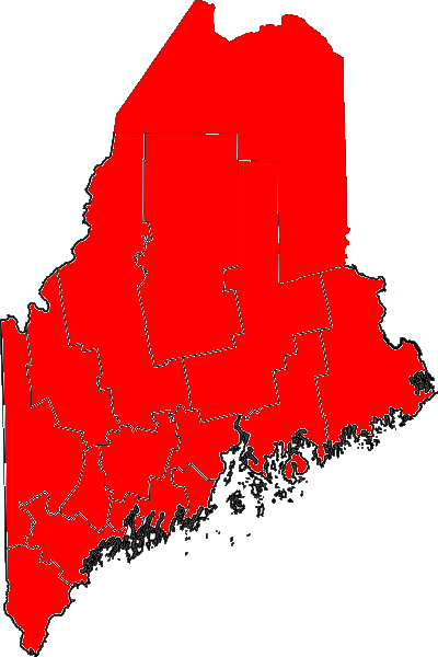 2006 Maine Senate results by county